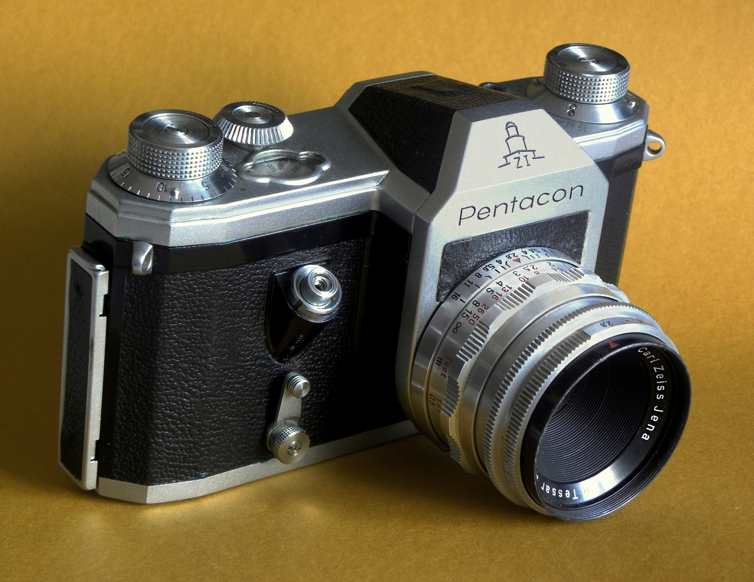 Pentacon SLR camera (VEB Zeiss Ikon); Contax-S